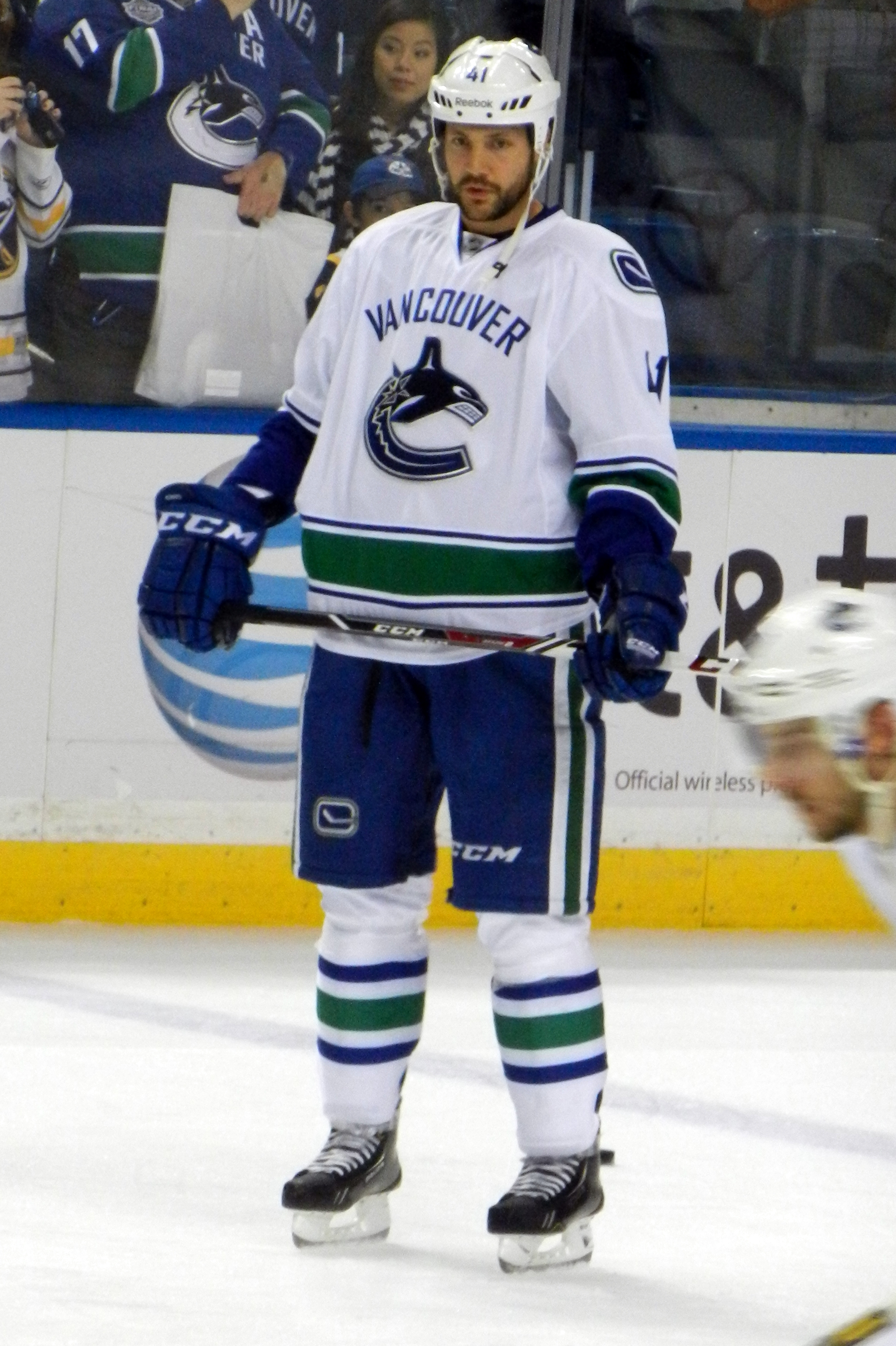 Andrew Alberts with the Vancouver Canucks in a game vs. the Buffalo Sabres during the 2013-14 season